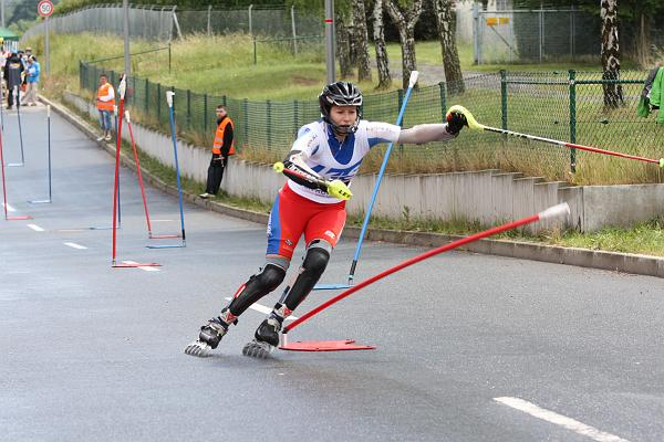 Ski- Inline Slalom Rennen, Deutsche Meisterschaft, Bad Hersfeld 2011